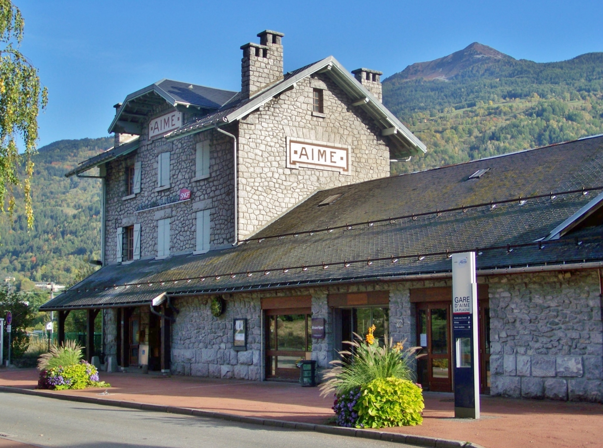 Sight of Aime - La Plagne railway station building (names from commune of Aime and La Plagne ski resort), in the Tarentaise valley (Alps), Savoie, France.